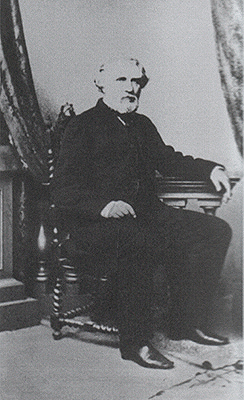 Photo of Ivan Turgenev (1860s)